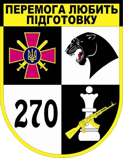 270 Mobile Simulation and Training Group